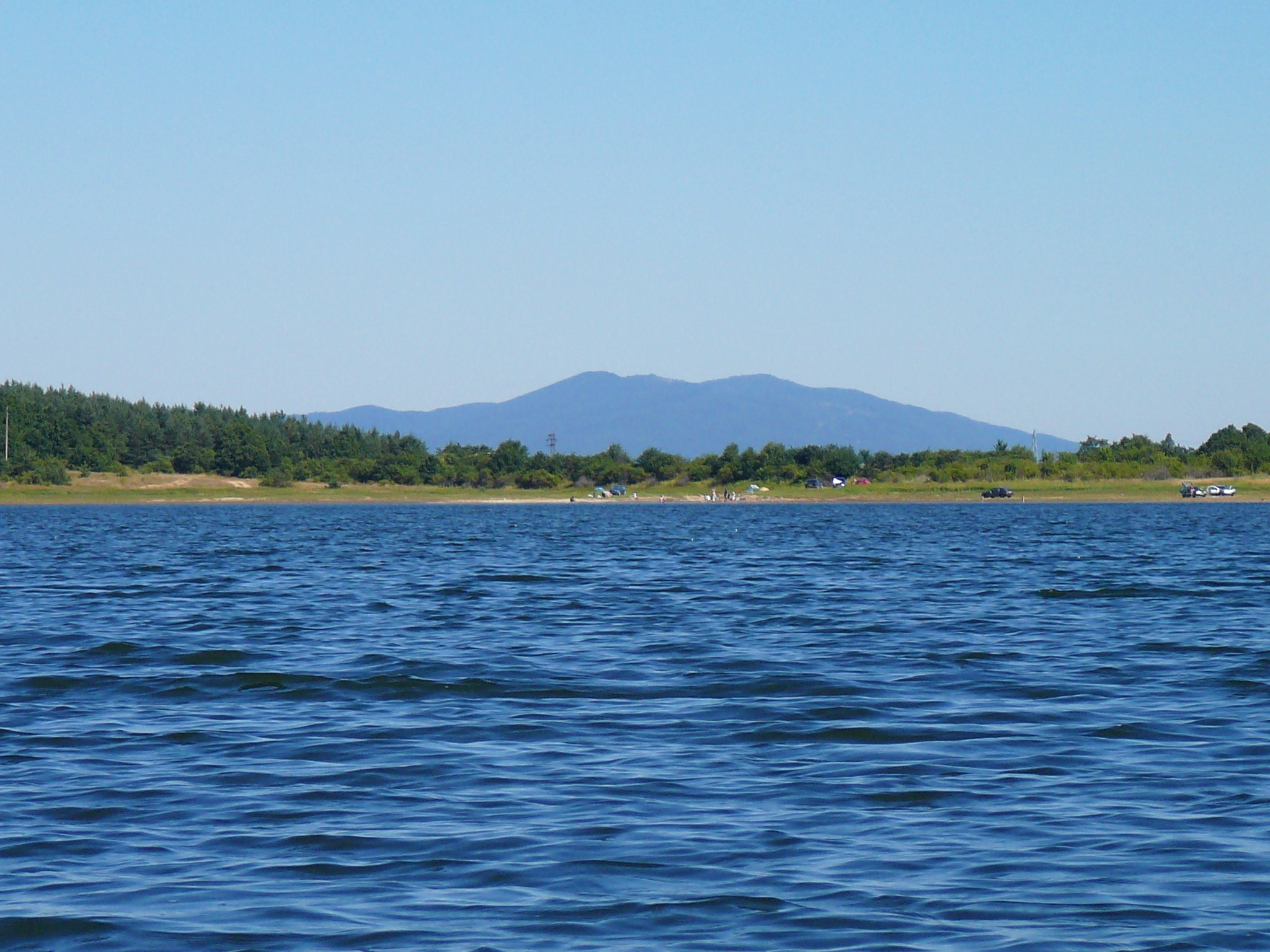 Bozalan dam, Bulgaria